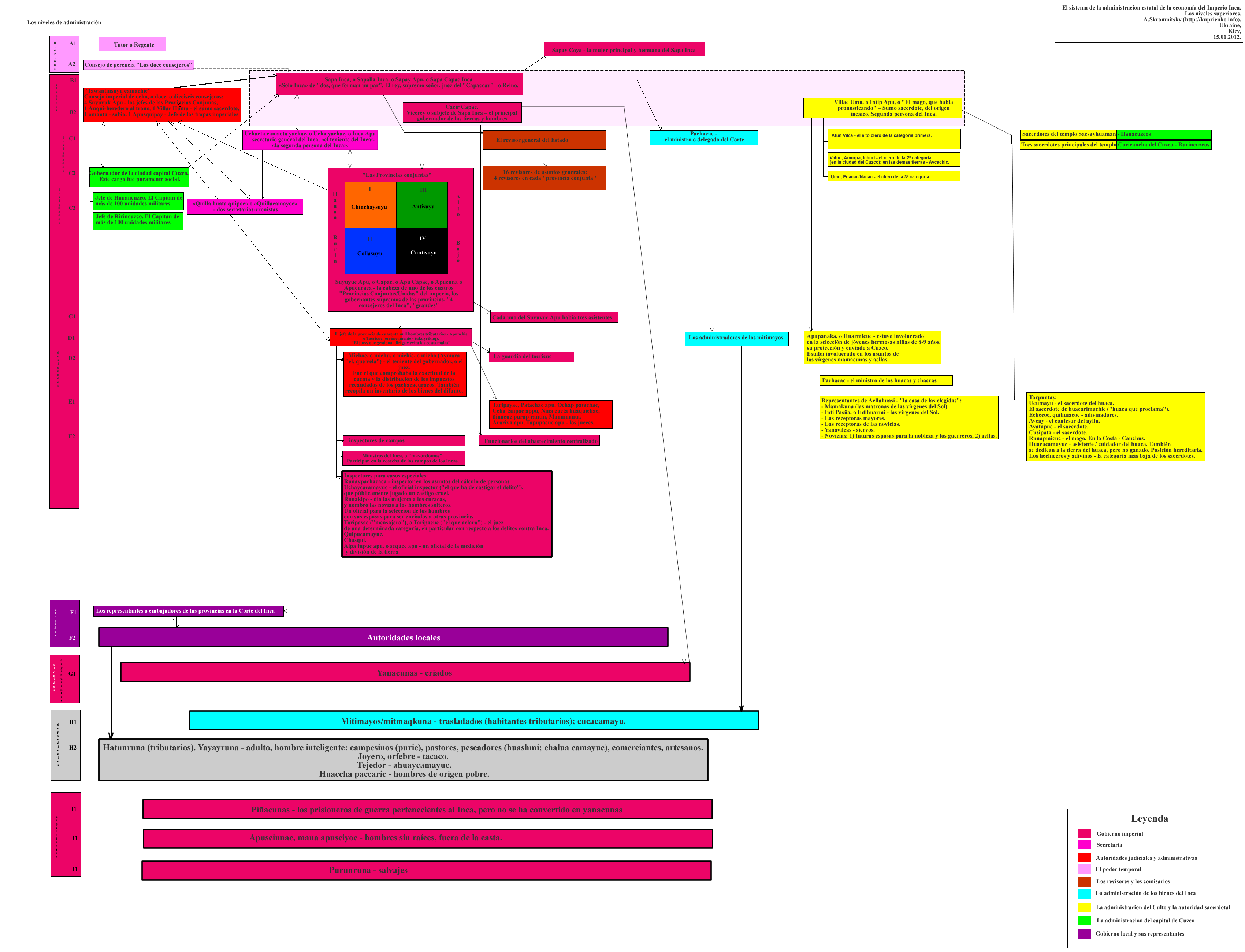 The state managment system of the Inka Empire's ecomony